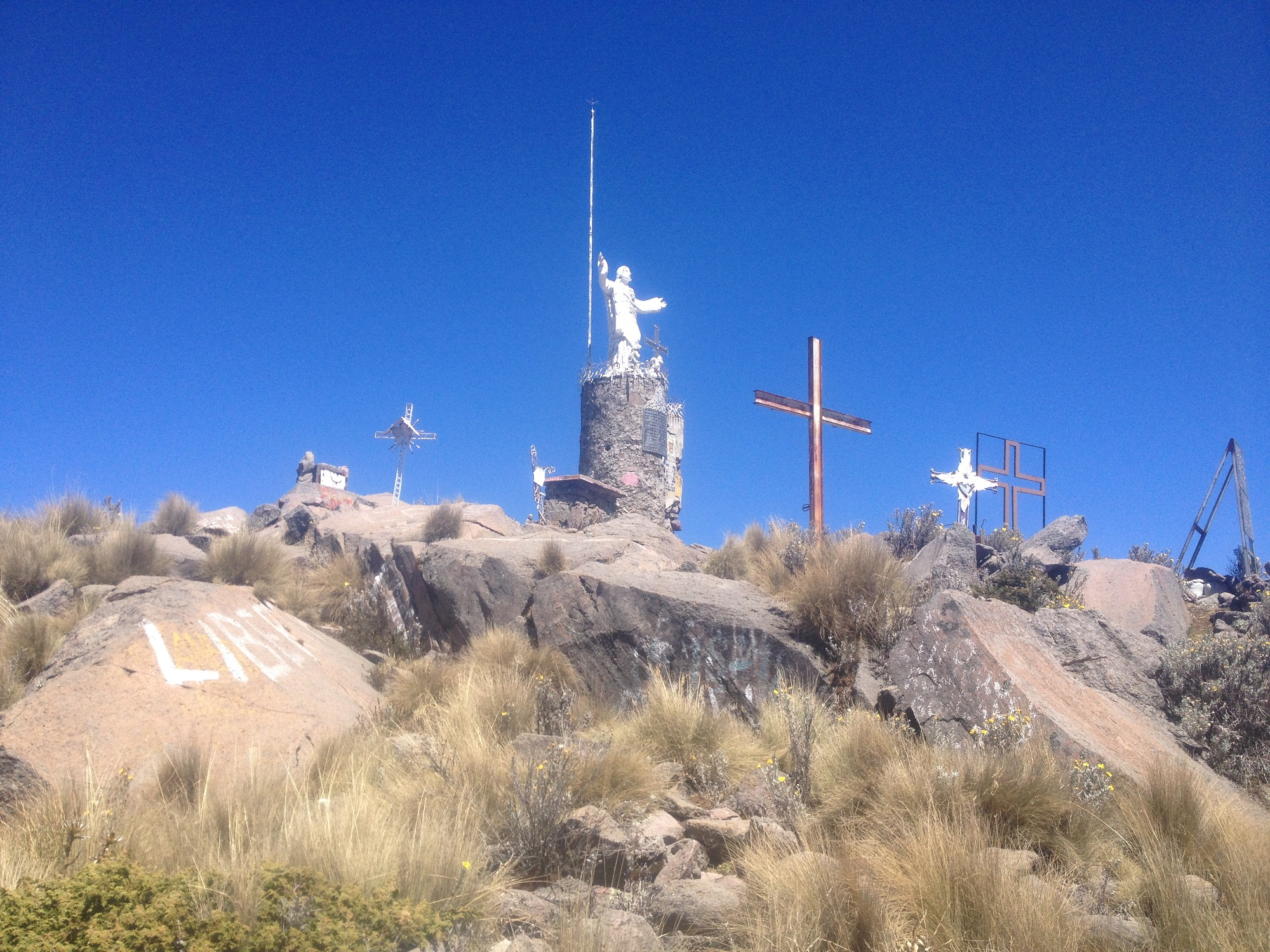 Mount Telapón (4060 m a.s.l.) is among the highest mountains of Mexico. Its summit is covered in crosses and features a statue of the Sacred Heart.